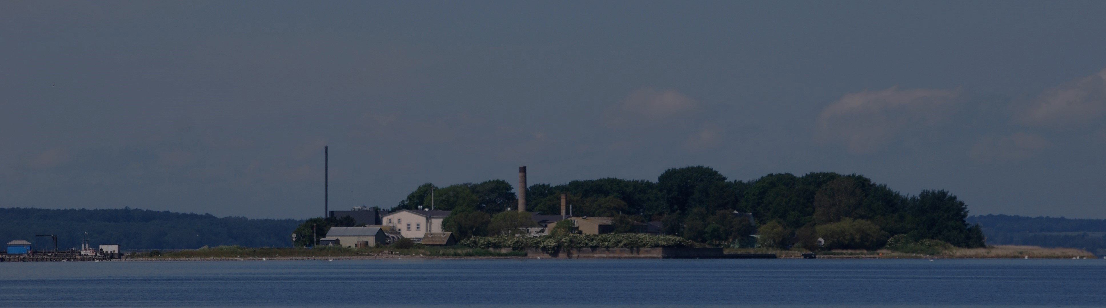 Island Lindholm, Møn, Denmark